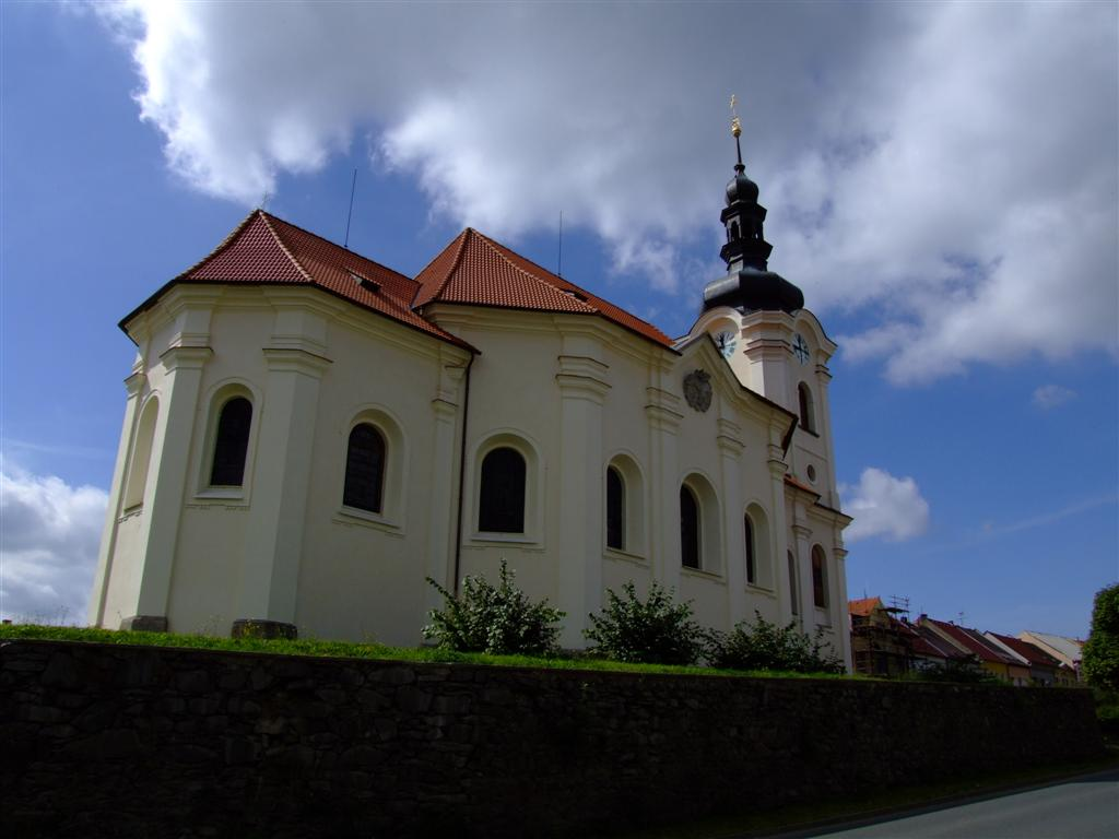 Outside view of St.Georgs Church in Cernošín